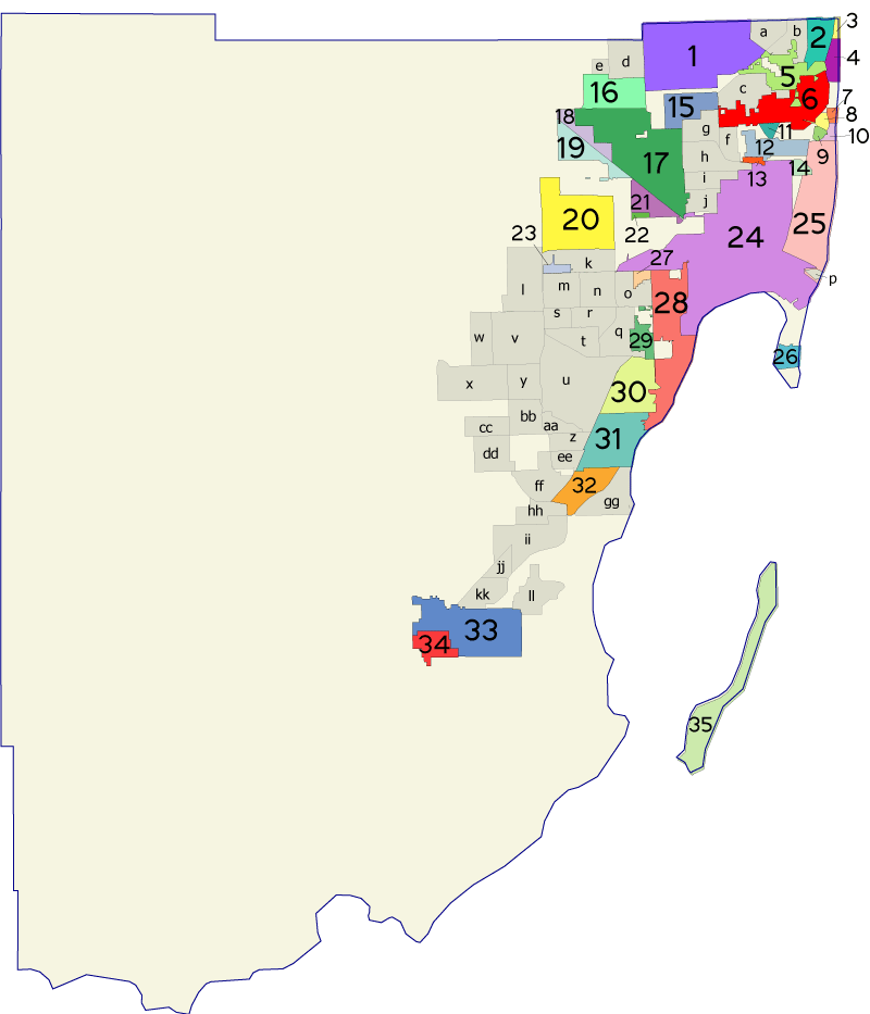 Map of Miami-Dade County in Florida (USA), showing city limits of cities/towns in the county, labeled with numbers on bright colors, letters on gray areas. Most of the map covers vacant space; see below: Map labels. Map was created using coordinate data from US Census Bureau, modified in accordance with incorporation data from 2000-2005 in Adobe Illustrator.